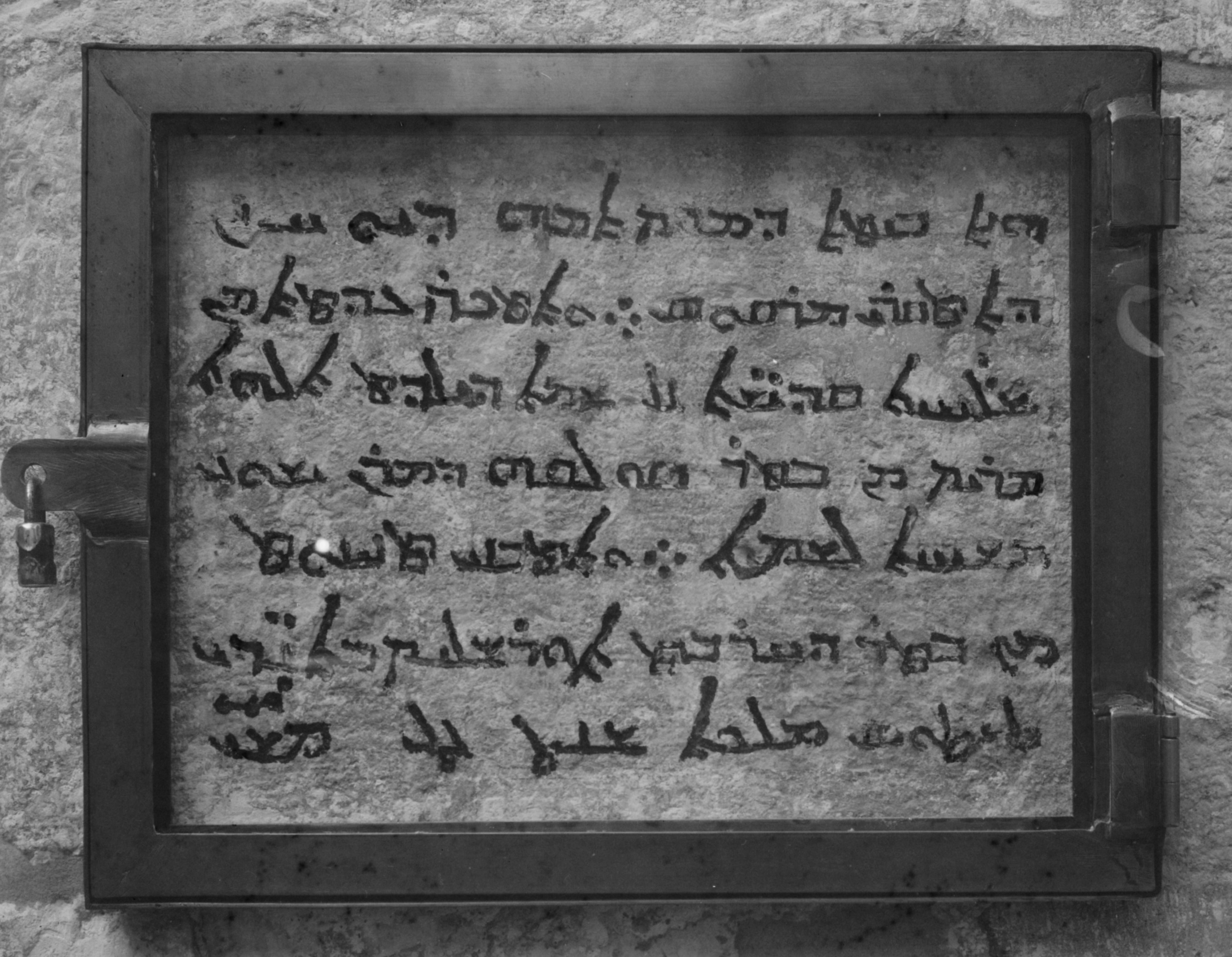 Syrian Church (Mt. Zion). Curaculune?, of St. Mark. Syrian or Syriac inscription found under plaster about 1520 A.D. The text reads: “This is the house of Mary, mother of John Mark. Proclaimed a church by the holy apostles under the name of the Virgin Mary, mother of God, after our Lord Jesus Christ went up to the heavens. It was rebuilt after the destruction of Jerusalem by Titus year 73.”